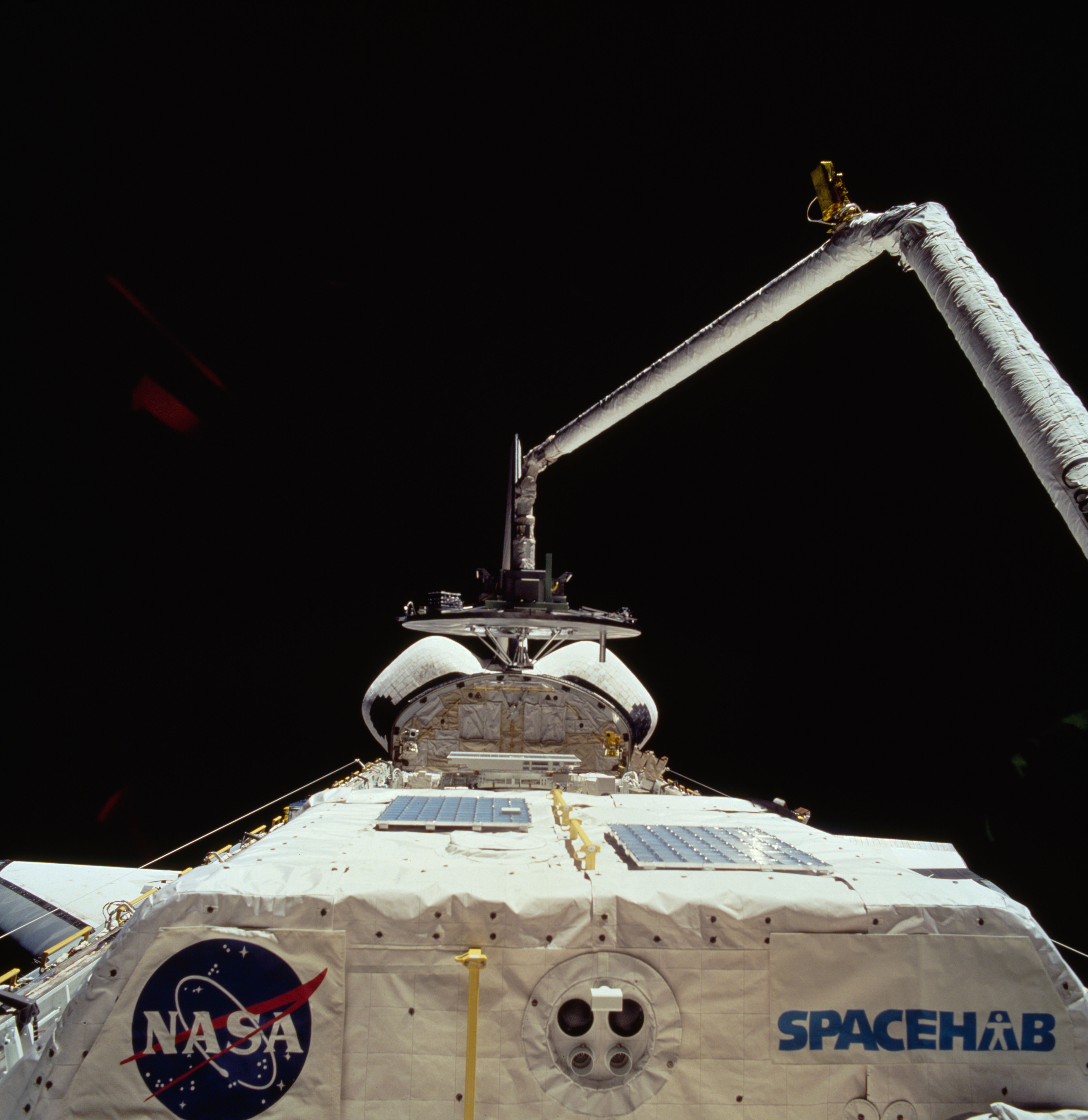 The Wake Shield Facility (WSF) is held in the grasp of Discovery's Remote Manipulator System (RMS) during STS-60. The 70mm image, backdropped against the blackness of space, also shows the SPACEHAB module in the forward cargo area.